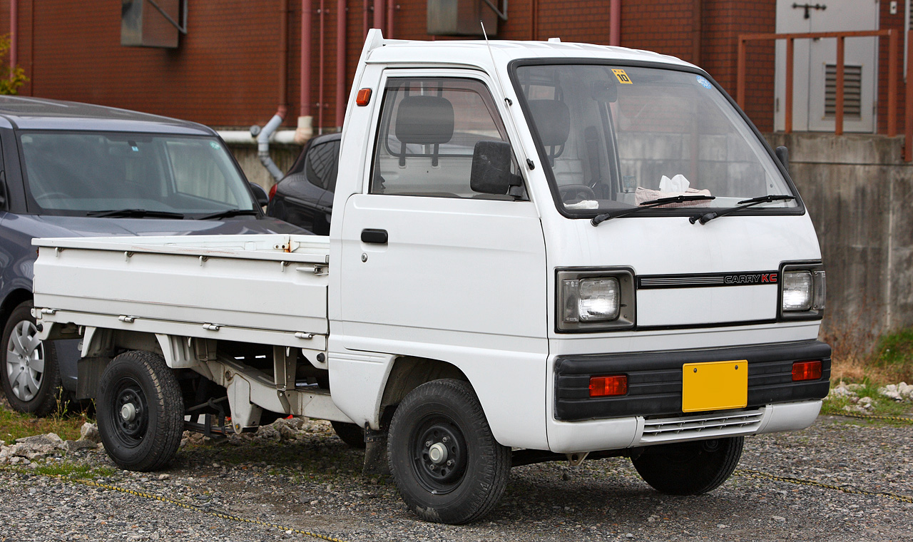 Suzuki Carry Truck KC ( DA71T )